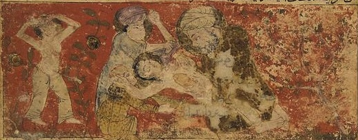 Folio from a Tarikhnama (Book of history) by Balami